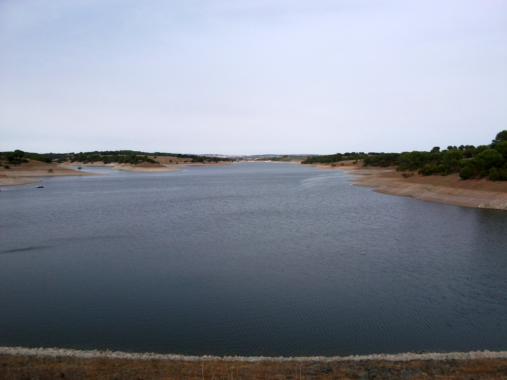 Vale do Gaio Reservoir from the Trigo de Morais Dam, in Torrão, Alcácer do Sal, Portugal. Parcial view.